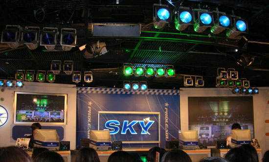 2006 SKY Proleague